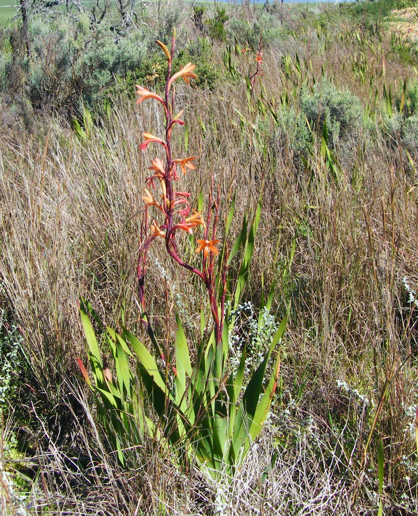 Watsonia